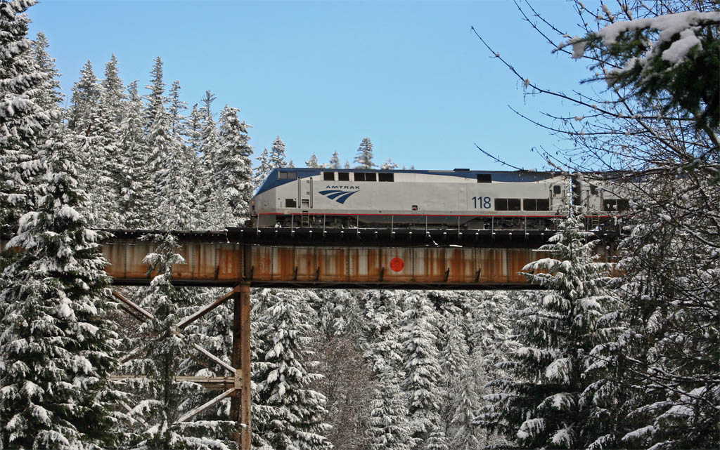 Amtrak's Coast Starlight on Salt Creek Trestle, Cascade Mountains of Oregon.